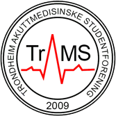 TrAMS logo